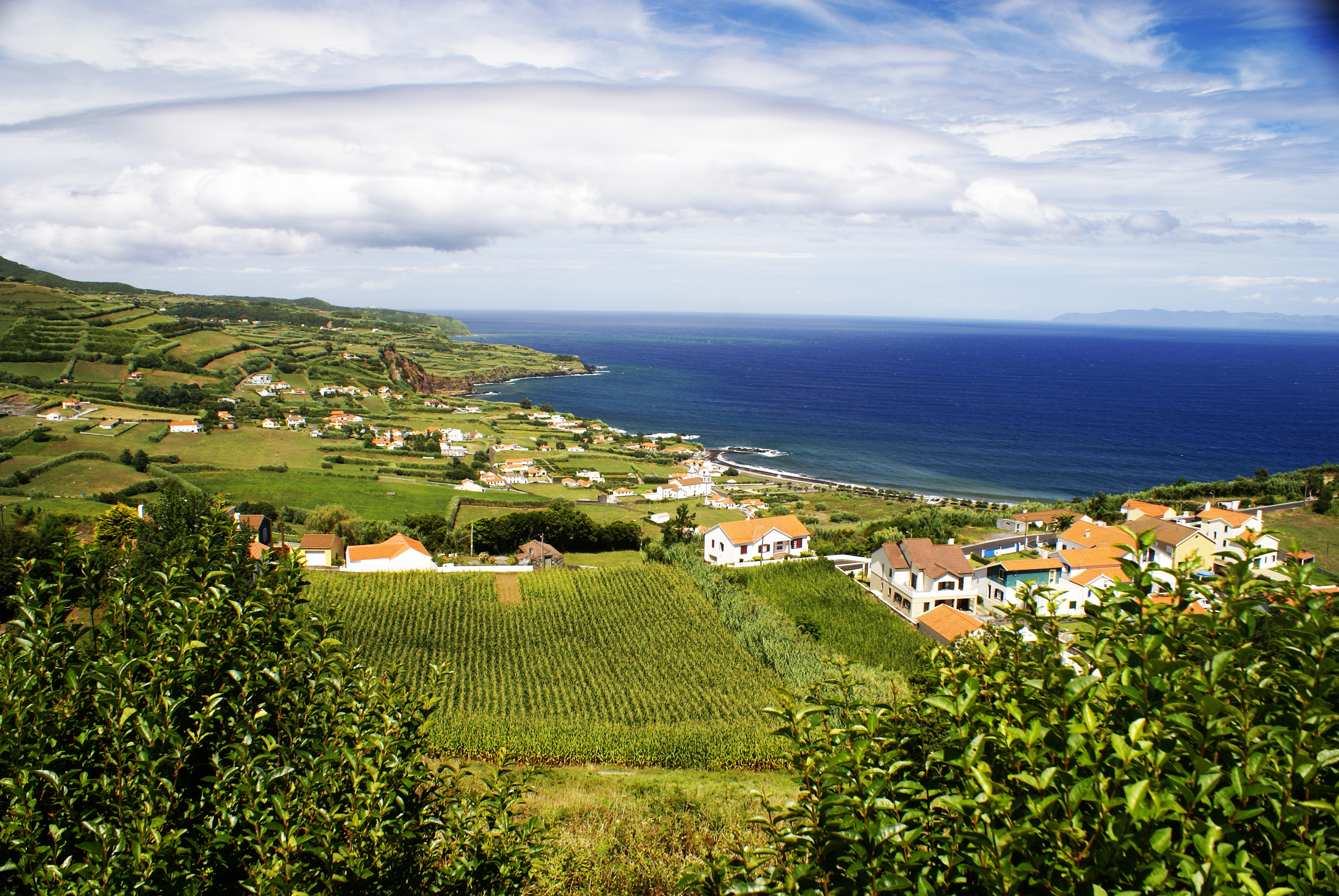 Praia do Almoxarife, concelho da Horta, ilha do Faial, Açores, Portugal